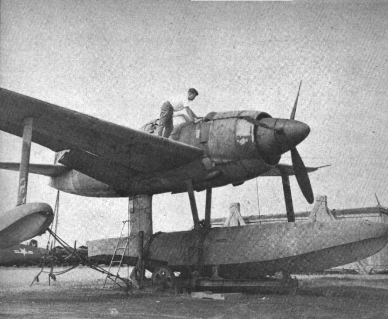 A captured Japanese Kawanishi N1K1 Kyofu (Allied code name "Rex") is put to mothballs at the Naval Air Station Norfolk, Virginia (USA), in 1949.